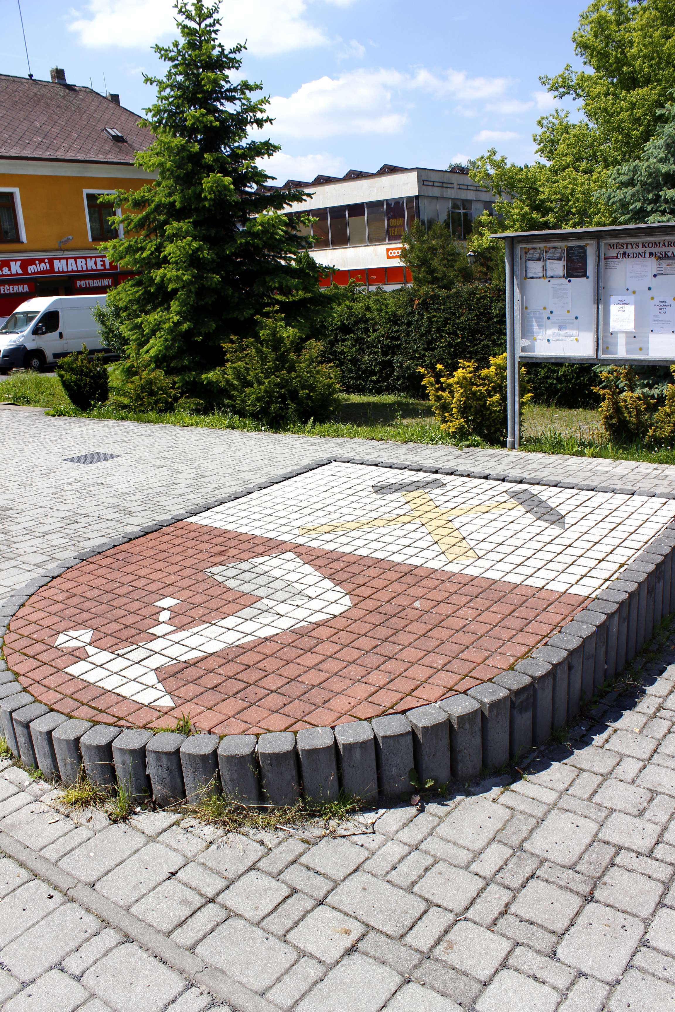 Coat of arms in Komárov, Czech Republic